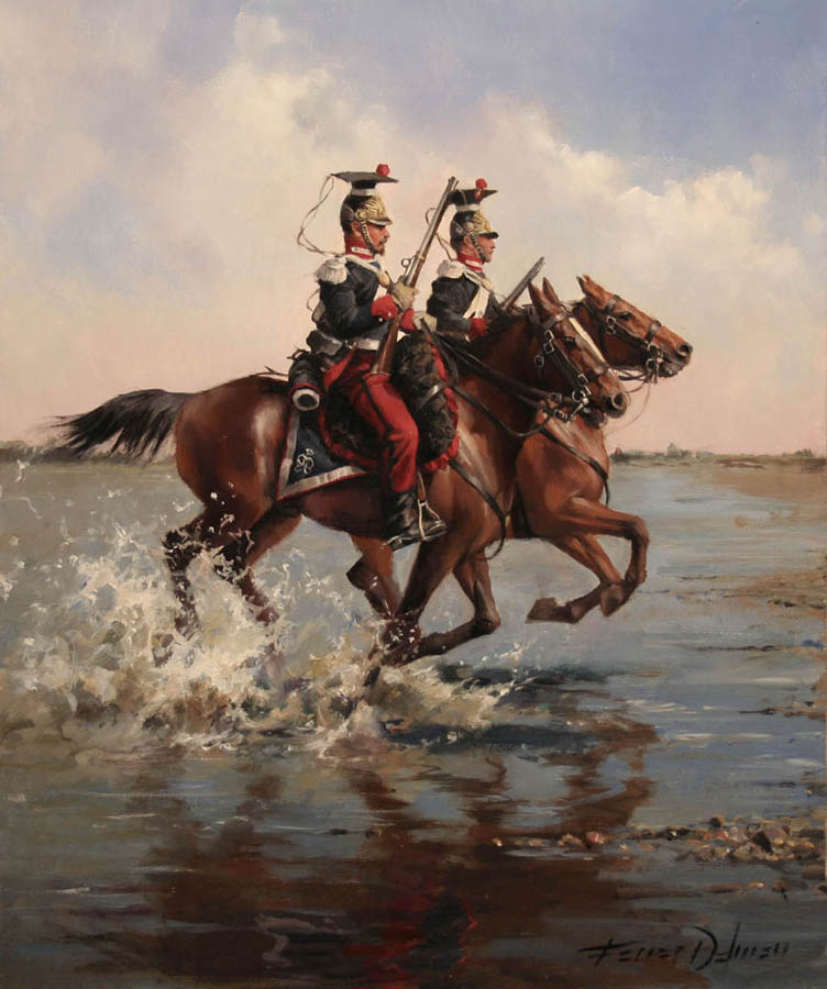 Tiradores de la guardia real, España 1834 by Ferrer-Dalmau